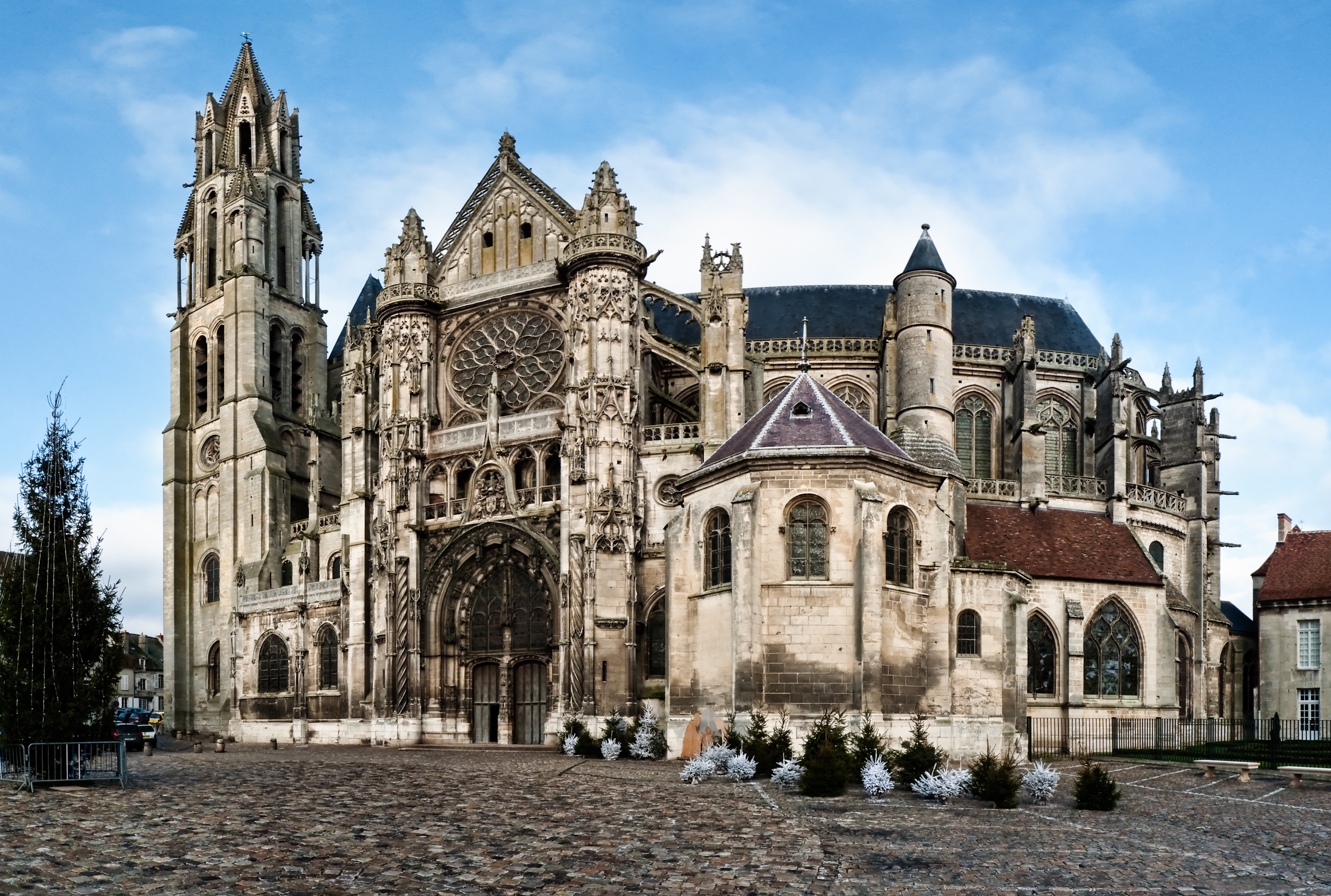 Cathedral Notre-Dame of Senlis